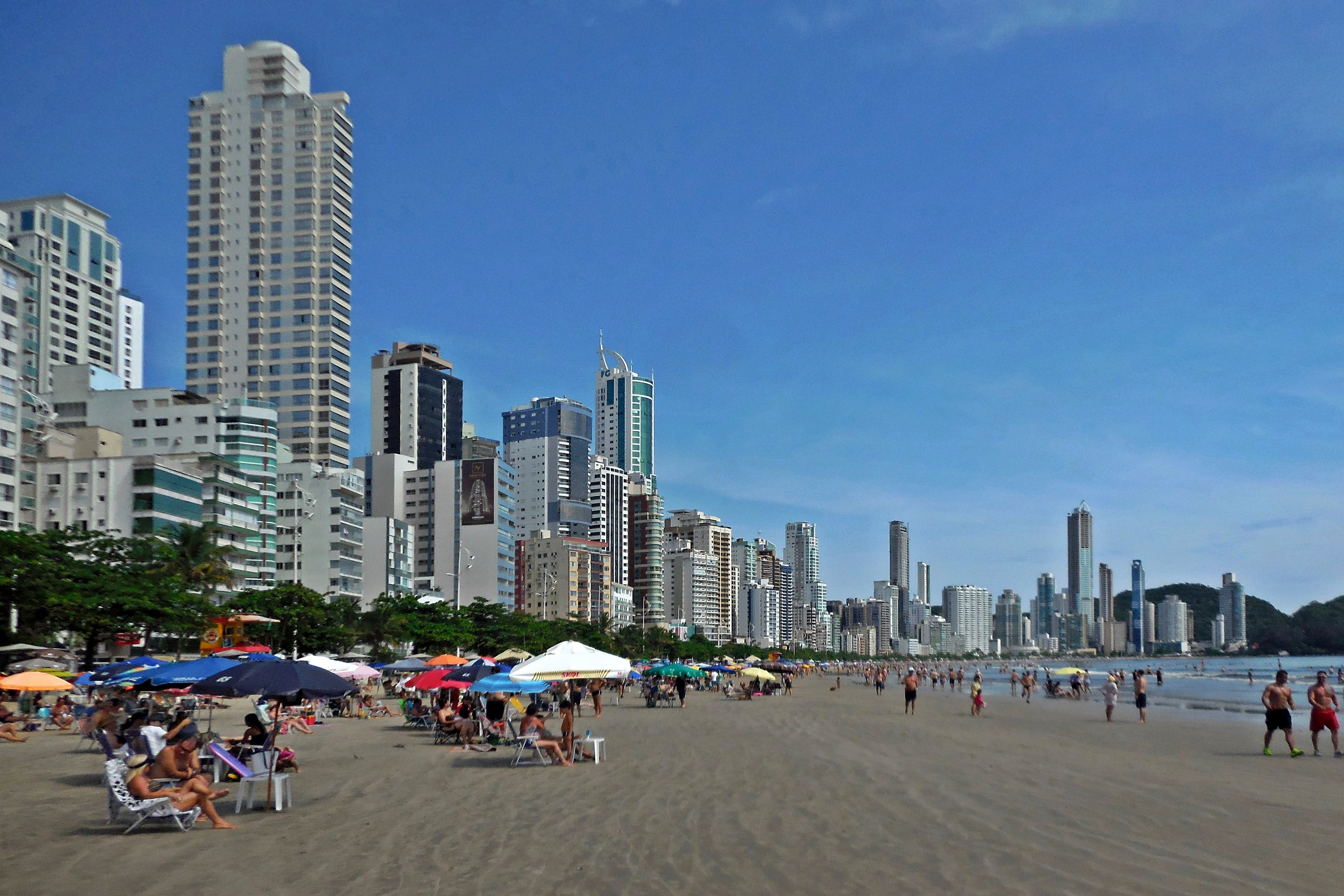 The Central beach with the Barra Norte in the background, in Balneário Camboriú, Santa Catarina, Brazil.